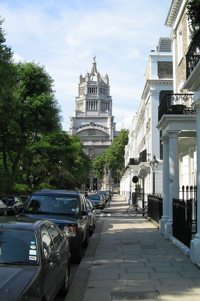 The Victoria and Albert Museum in South Kensington, London, England, looking north from Thurloe Square. Photograph taken by Will Fox in July 2005 and released to the public domain.